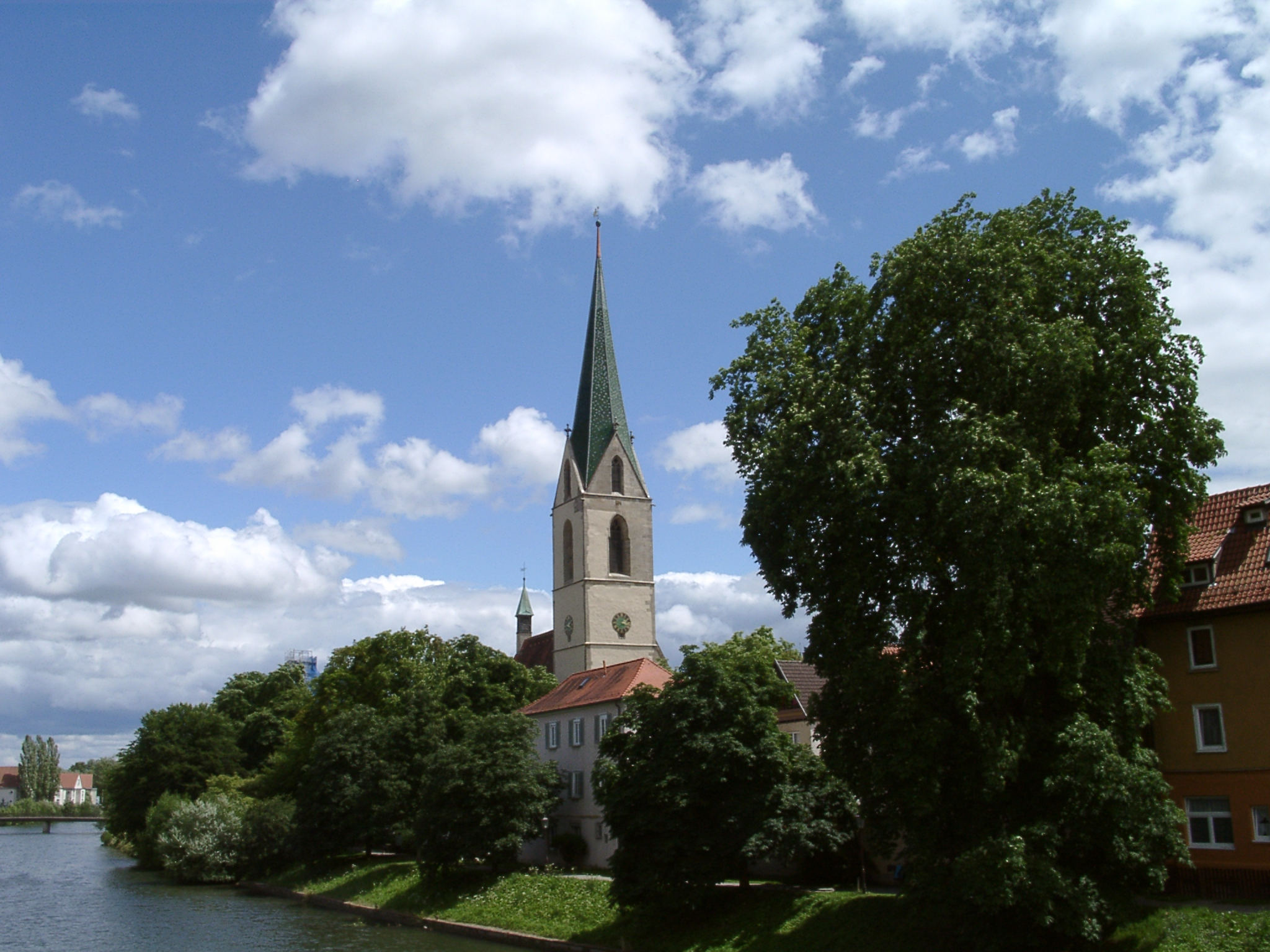 Stiftskirche St. Moriz (Collegiate Church Saint Morris) in Rottenburg am Neckar (Ehingen quarter), administrative district of Tübingen, (State of Baden-Württemberg / Germany). Ancient Convent of Canons.